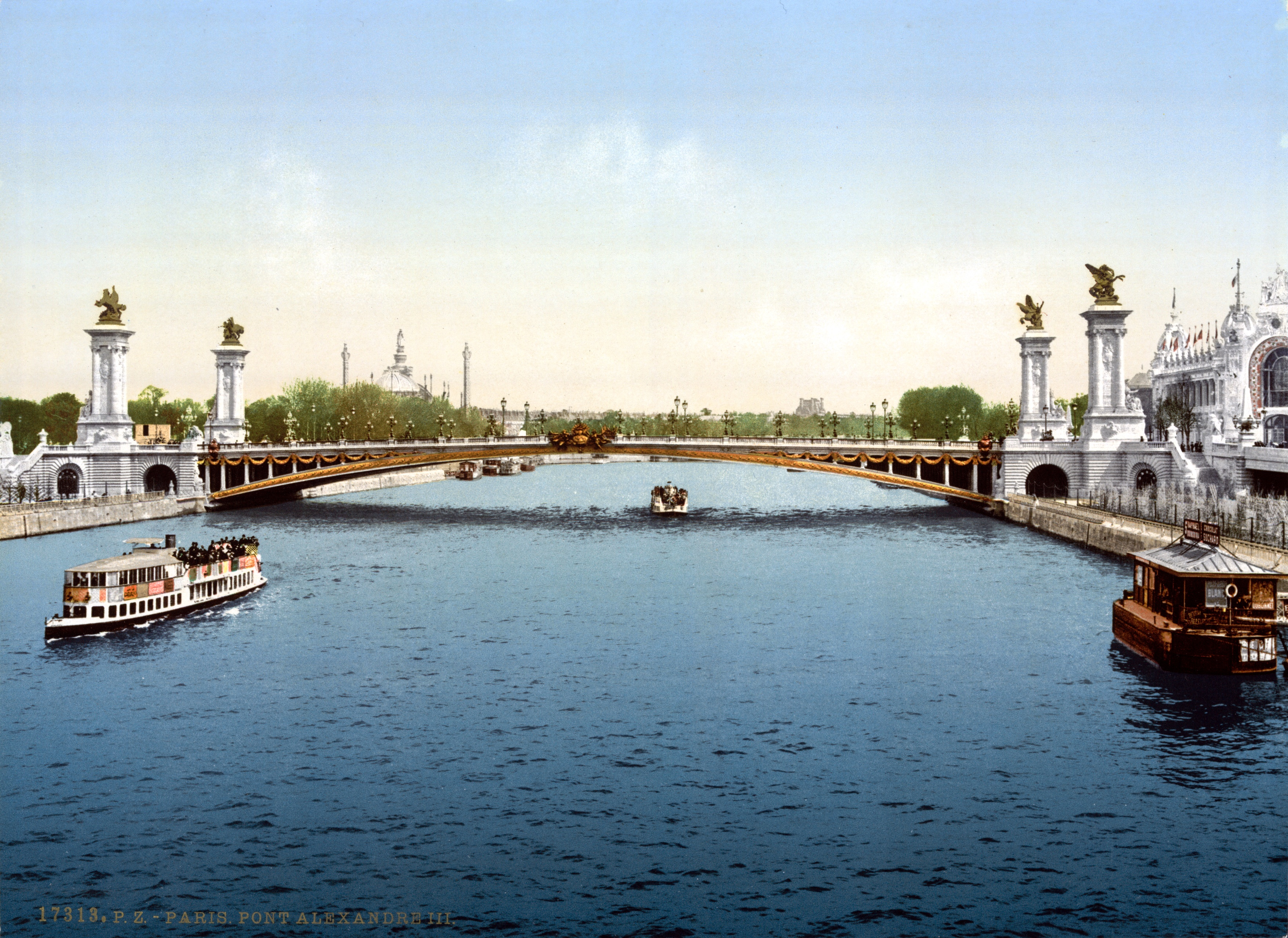 Alexandre III, bridge, Exposition Universal, 1900, Paris, France